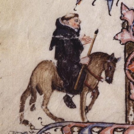 The Friar in the Ellesmere manuscript of Geoffrey Chaucer's Canterbury Tales.